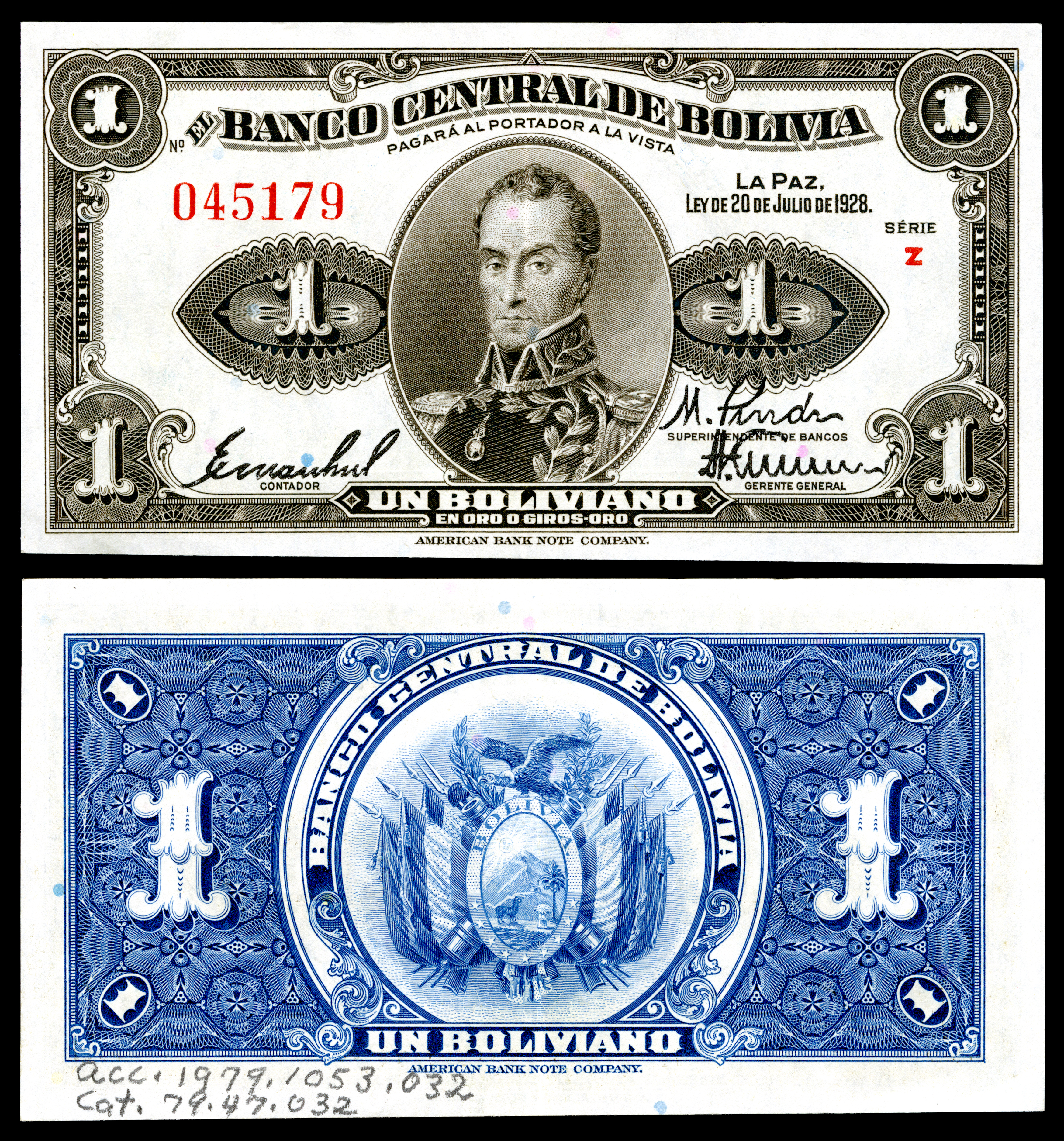 BOL-119a-Banco Central de Bolivia-1 Boliviano (1928)